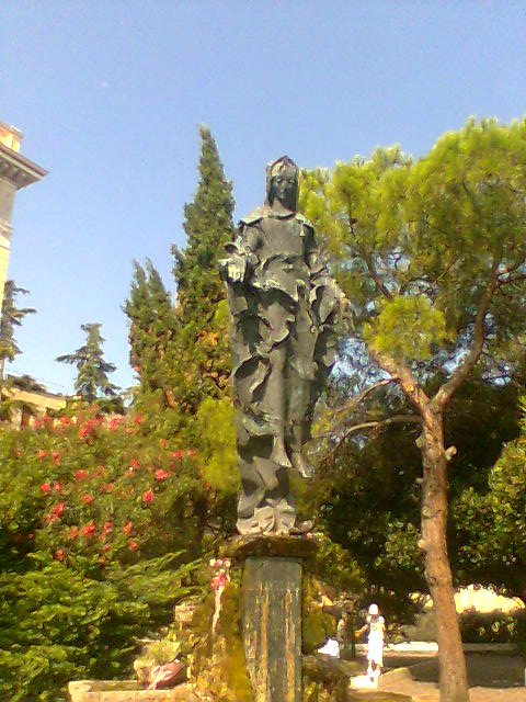 Situated statue to the outside of the railway station in Venice Santa Lucy